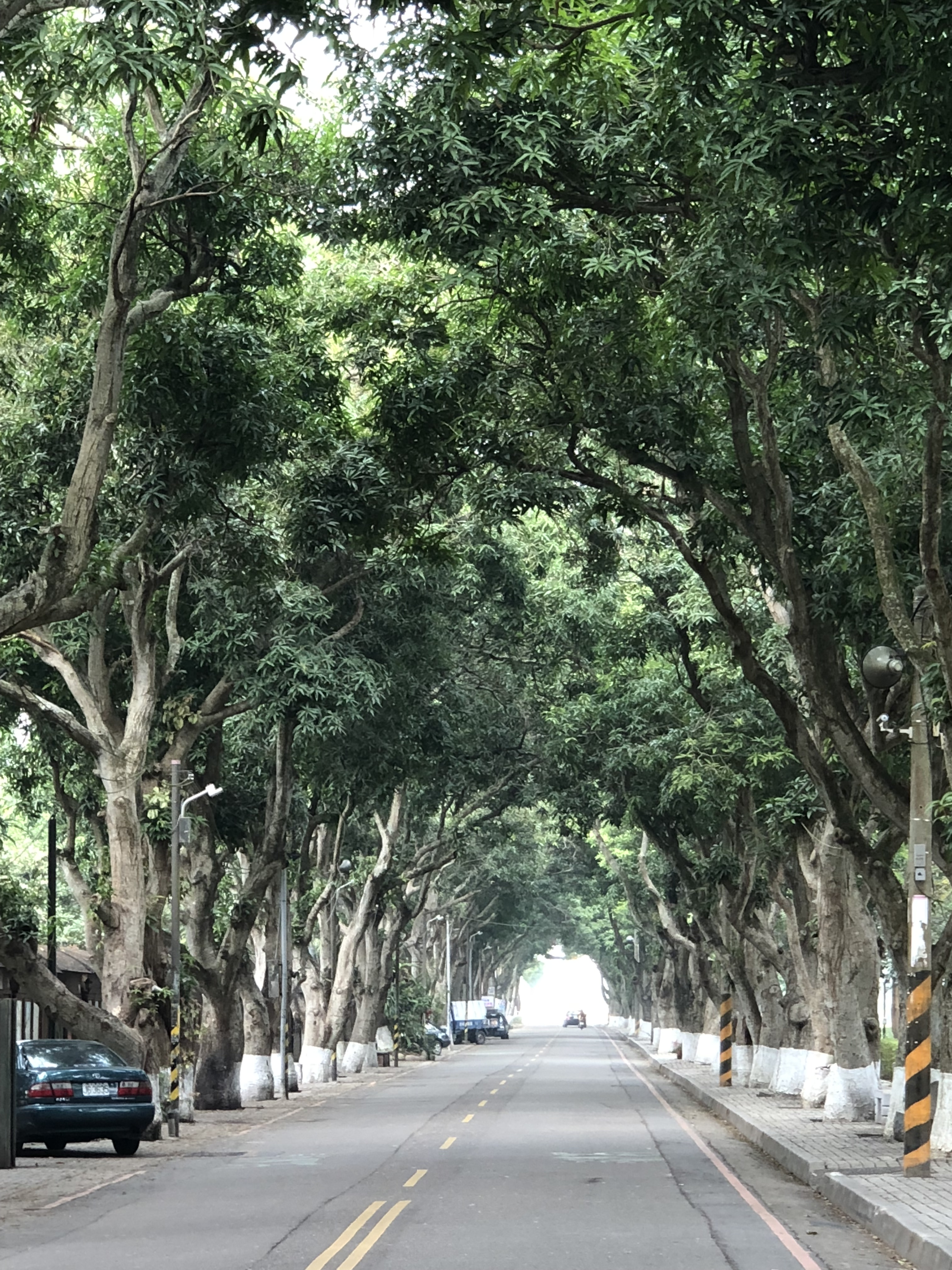 Road through Gukeng Green Tunnel.